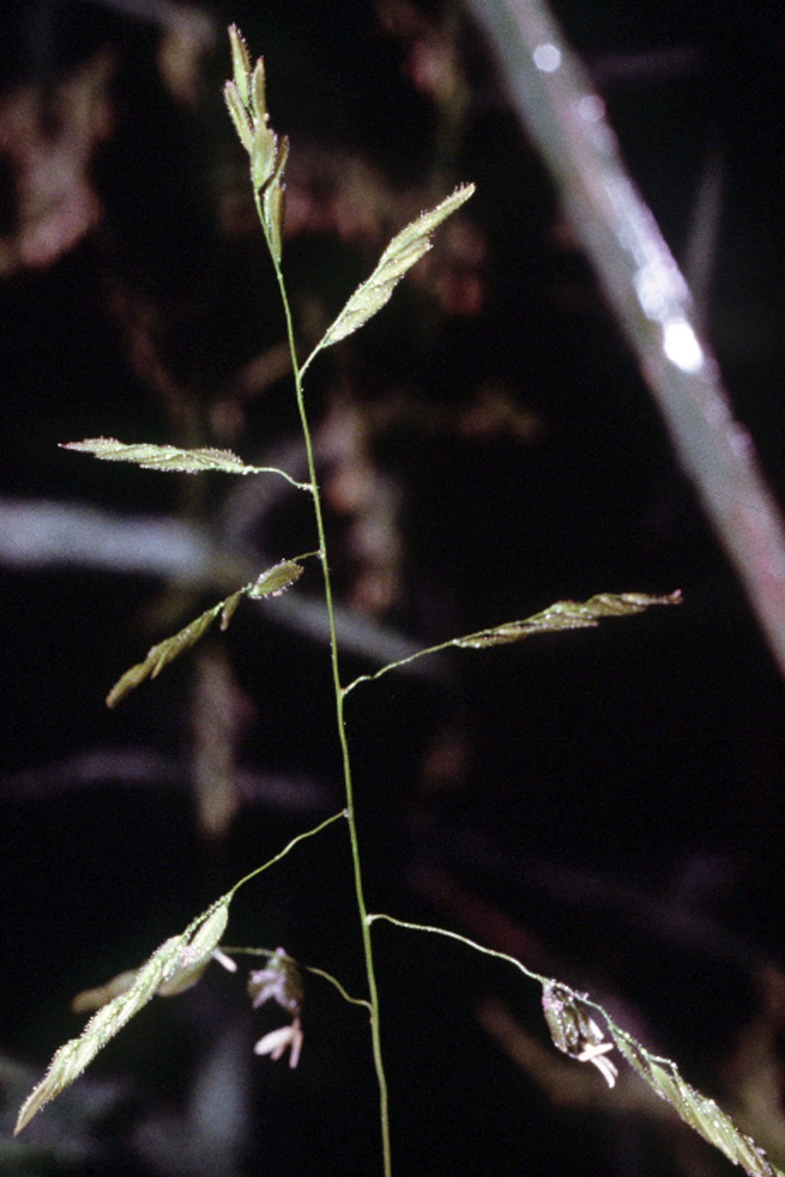 Leersia oryzoides from Midwest wetland flora: Field office illustrated guide to plant species. Midwest National Technical Center, Lincoln. Courtesy of USDA NRCS Wetland Science Institute.